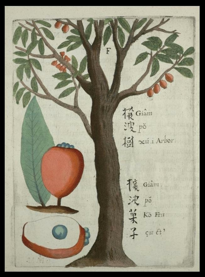 One of the earliest natural history books about China. Jesuit Missionary author. (obviously includes some non-Chinese {and non-floral} species)